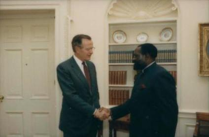 PRESIDENT BUSH MEETS WITH UNITA LEADER JONAS SAVIMBI OF ANGOLA.